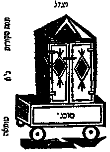 Image for understand Rambam commentary to Masechet Ohalot